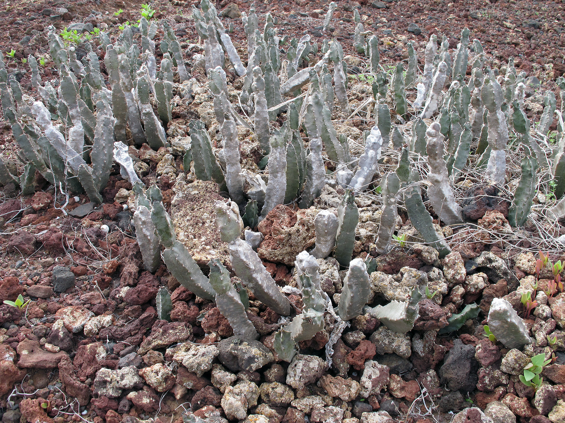 Apteranthes burchardii in its habitat on the ile La Graciosa